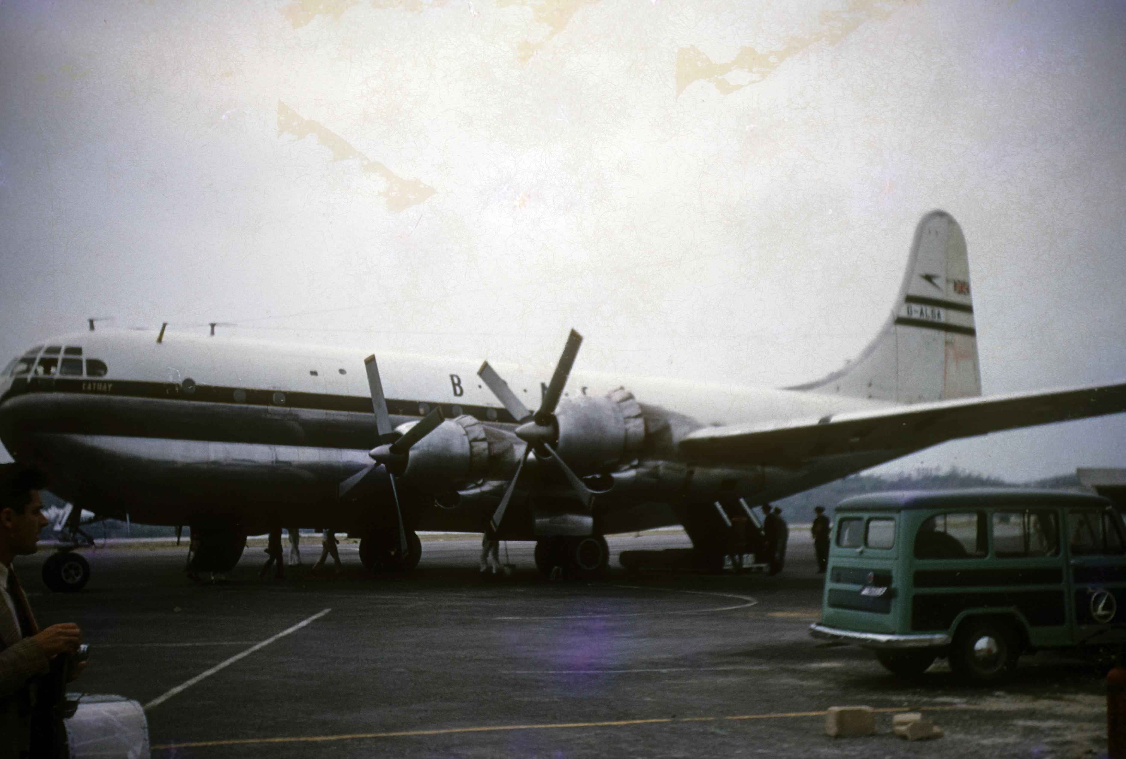 My father took this color slide photo while stationed at Kindley Air Force Base in Bermuda. The plane was there in connection with the Churchill visit to Bermuda for the Western Summit in December 1953.